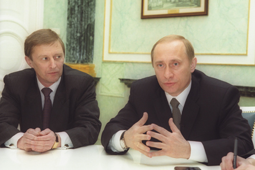 THE KREMLIN, MOSCOW. With Sergei Ivanov, Secretary of the Security Council at a meeting with journalists after the Security Council meeting.